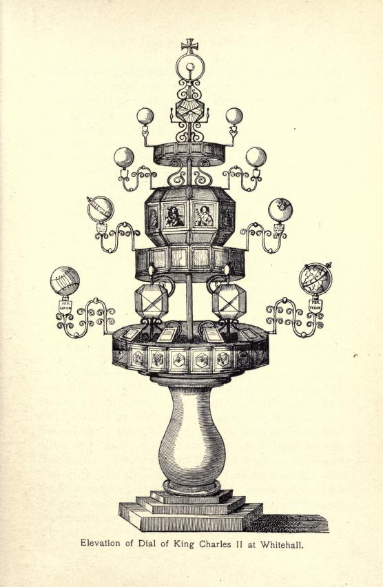 Elevation of a dial created by Francis Line for the Whitehall Palace garden of Charles II of England.